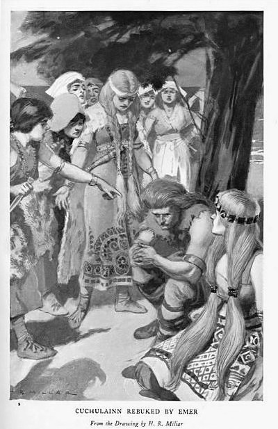 Illustration of Cuchulainn and Emer by Harold Robert MillarFrom: Squire, Charles (n.d.), “Chapter 13: Some Gaelic Love-Stories”, in Celtic Myth And Legend Poetry And Romance, London: Gresham Publishing Company, page 186. Originally published under the title The Mythology of the British Islands, London: Blackie and Son, 1905.